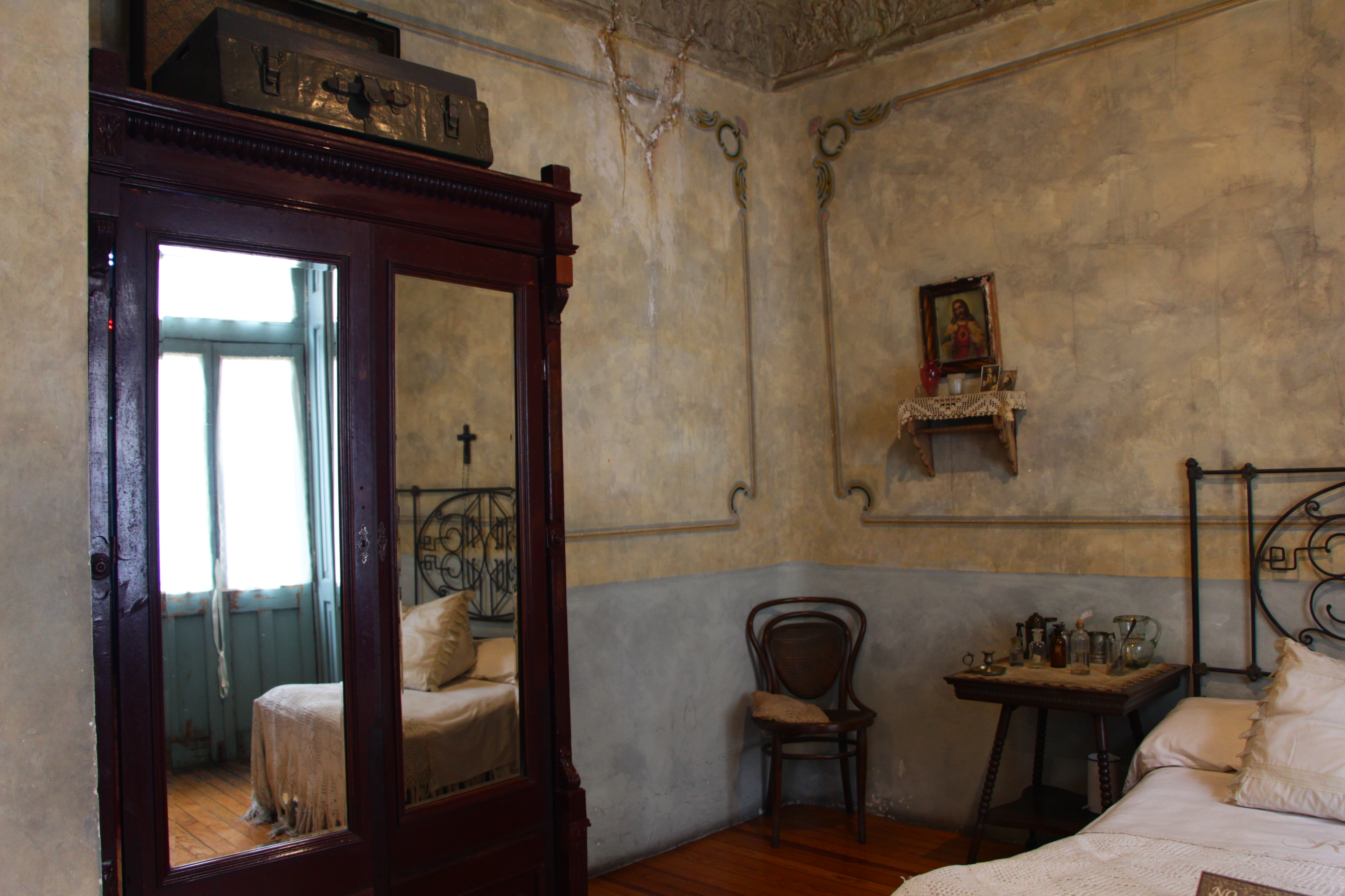 Left view of the bedroom of the poet Ramón López Velarde, wardrop, night stand, chair and bed located at the bedroom from the museum Casa del Poéta Ramón López Velarde, at Colonia Roma, Mexico City